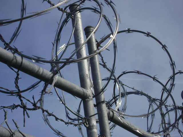 A bunch of Razor Wire atop a chain link fence